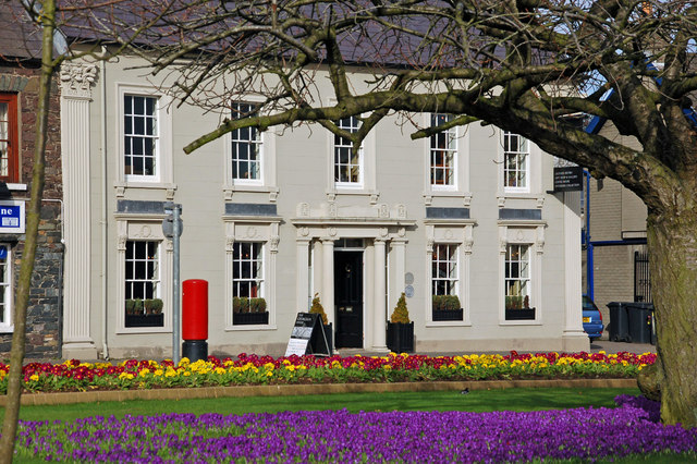 The Square, Comber Comber developed as a linen and distilling town surrounded by rich agricultural land. The Square has an interesting variety of buildings. This one is now a restaurant.